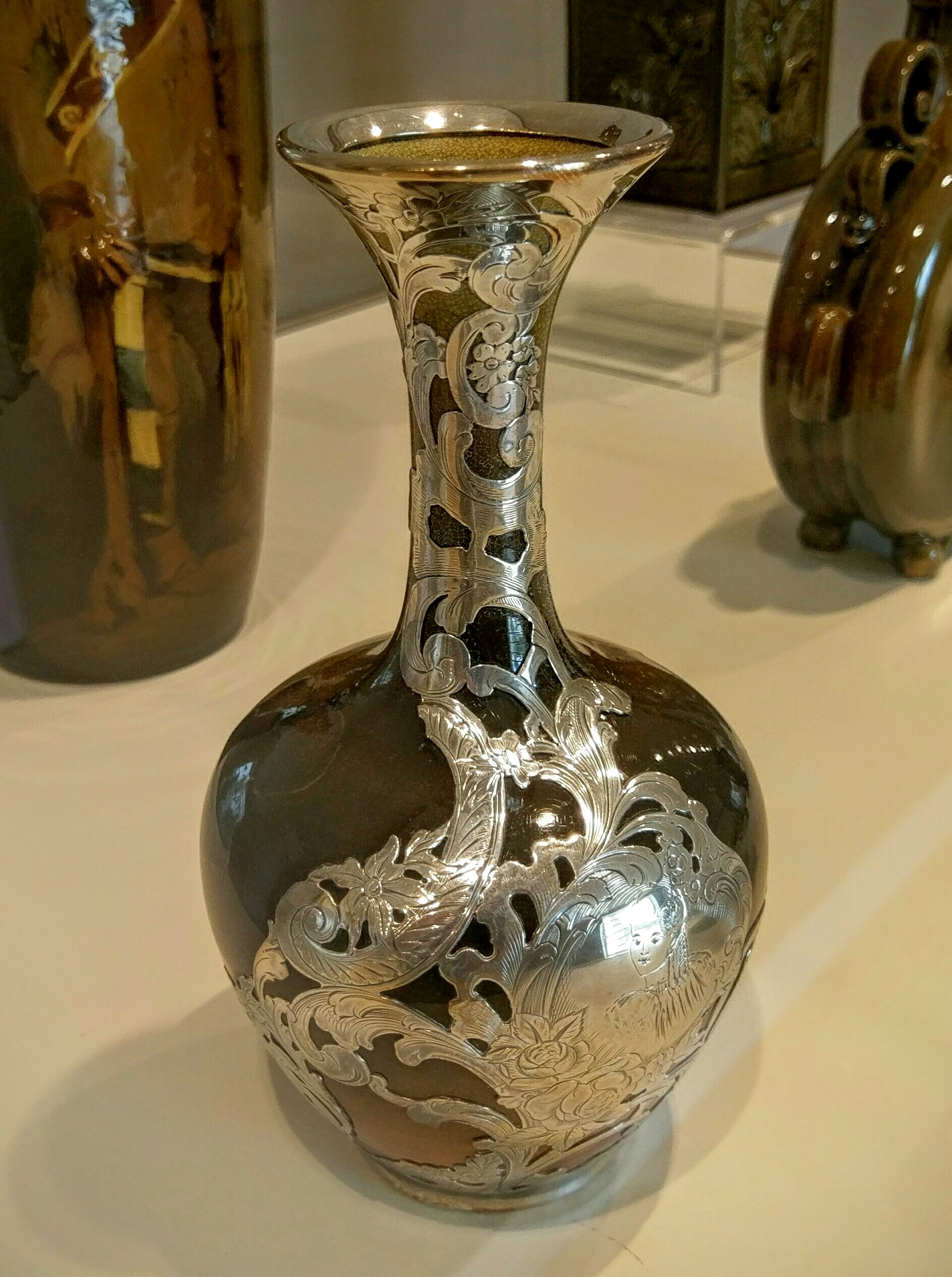 A ceramic vase with silver overlay by Kataro Shirayamadani for Rookwood Pottery, made in 1892, at the Crocker Art Museum in Sacramento, California. Photo by Jim Heaphy.